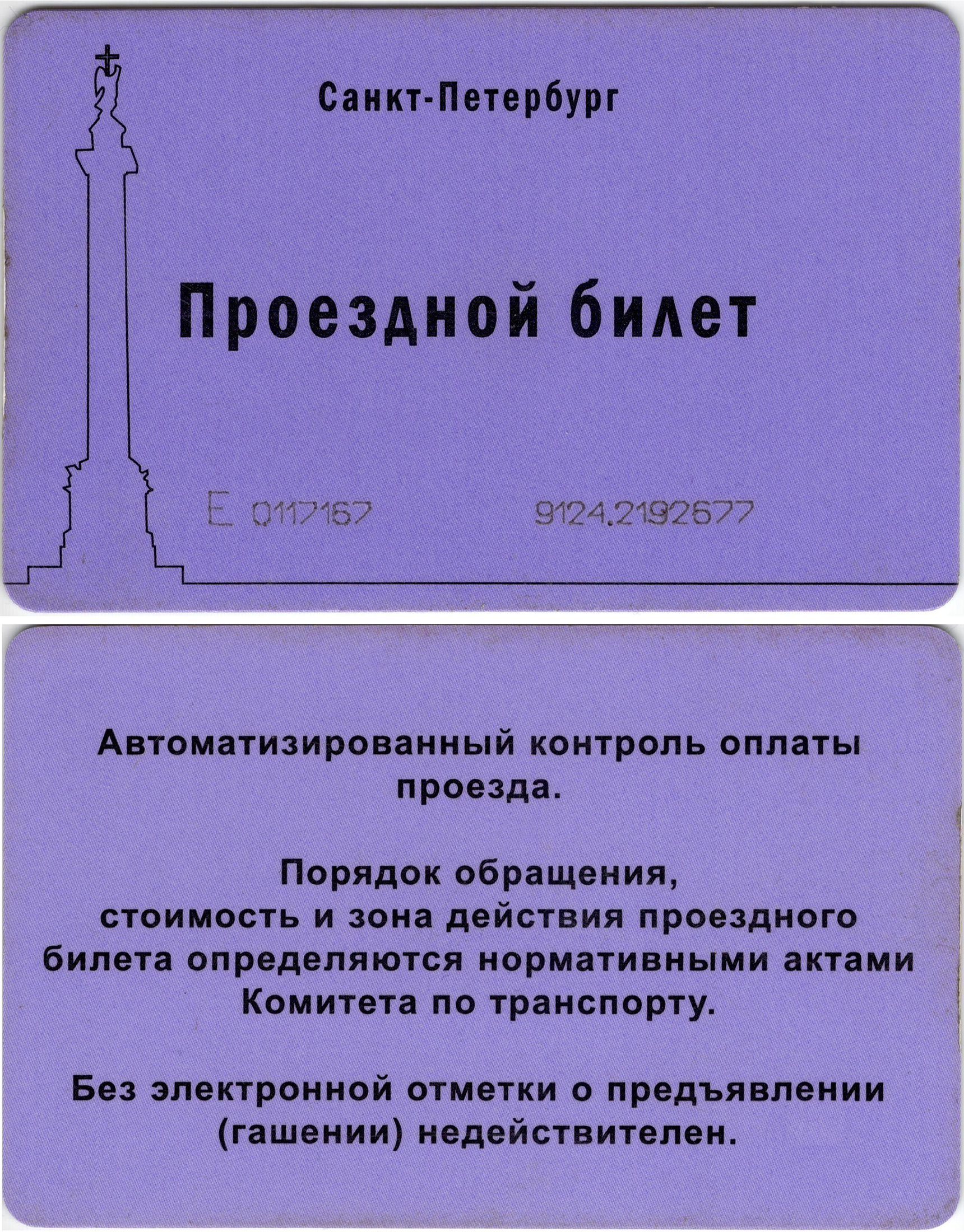 Saint Petersburg Public Transport Smart Card